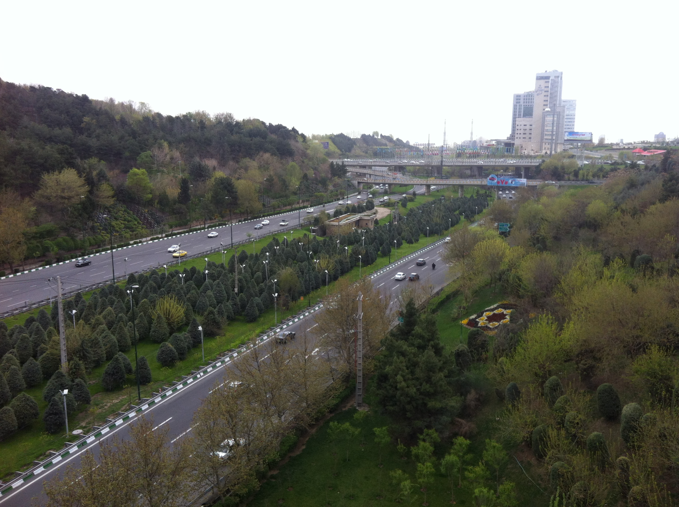 Modares highway view from Tabiat Bridge facing South